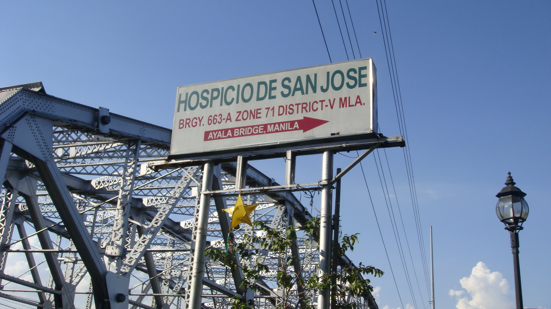 The Hospicio de San Jose (Hospice of St. Joseph), Brgy. 663-A, Zone 71, District V, Manila, Ayala Bridge